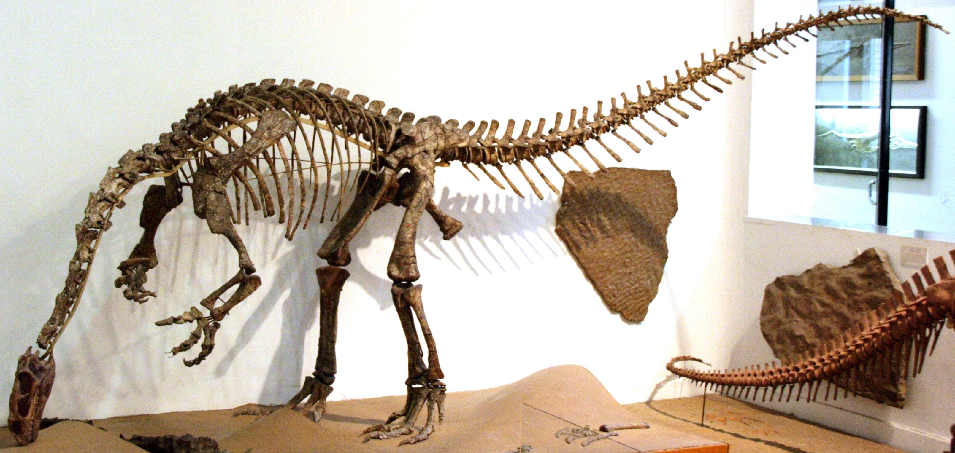 Plateosaurus engelhardti skeletons "Skelett 1" (catalog number GPIT/RE/7288) on exhibit at the museum of the Institute for Geosciences of the Eberhard-Karls-University Tübingen, Germany. "Skelett 1" is a nearly complete individual from Trossingen, Germany. Mount created under the direction of Friedrich von Huene.